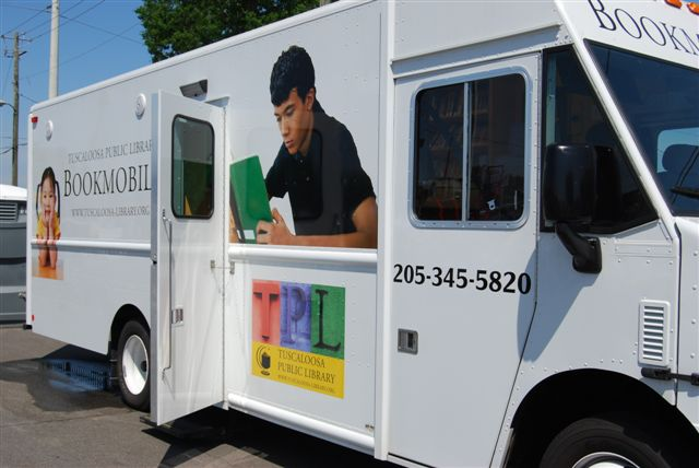 Bookmobile nicknamed "Dewey" from the Tuscaloosa Public Library